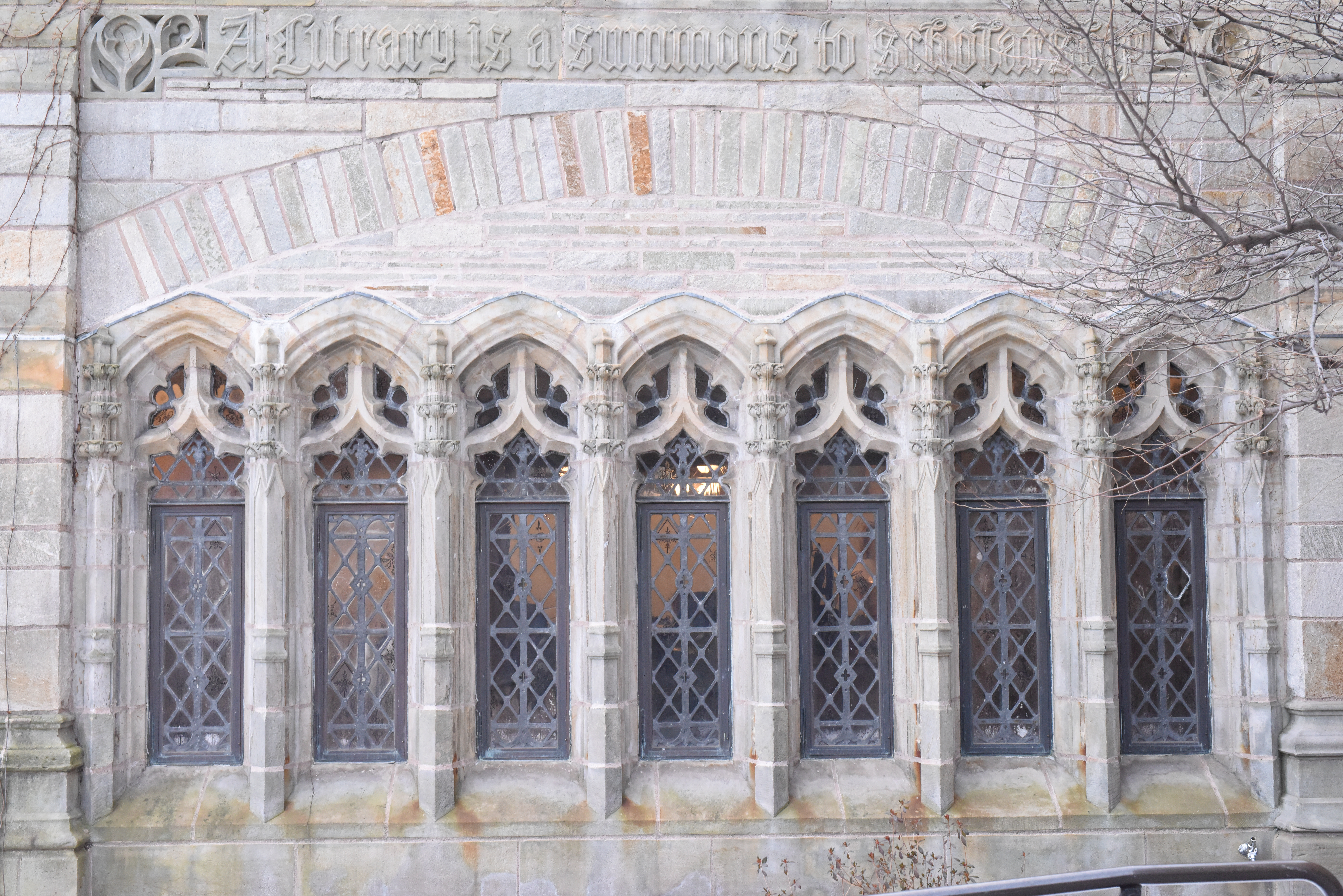 Yale II